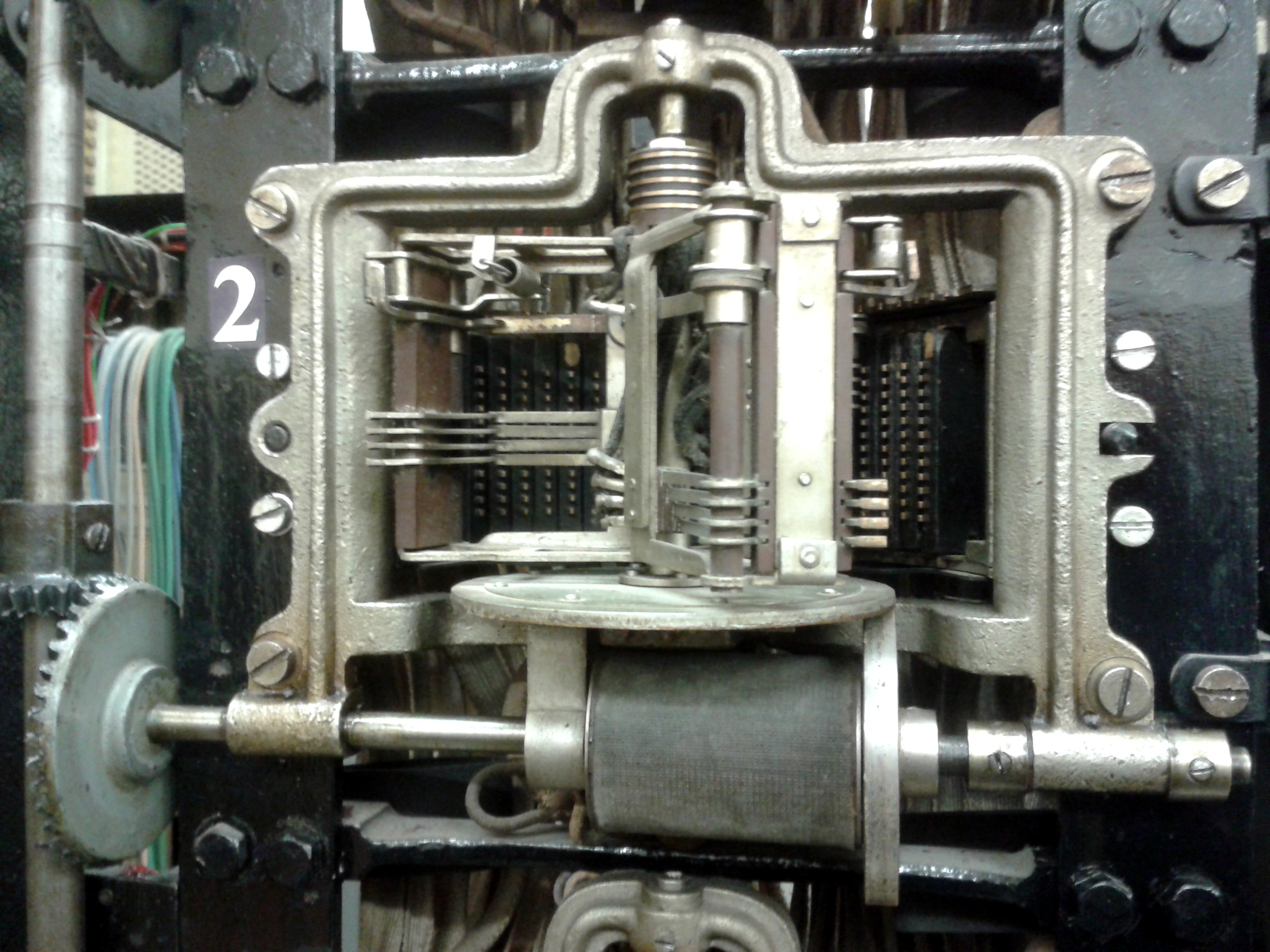 Western Electric 7A (Birdcage) Line Finder No. 7001 type.